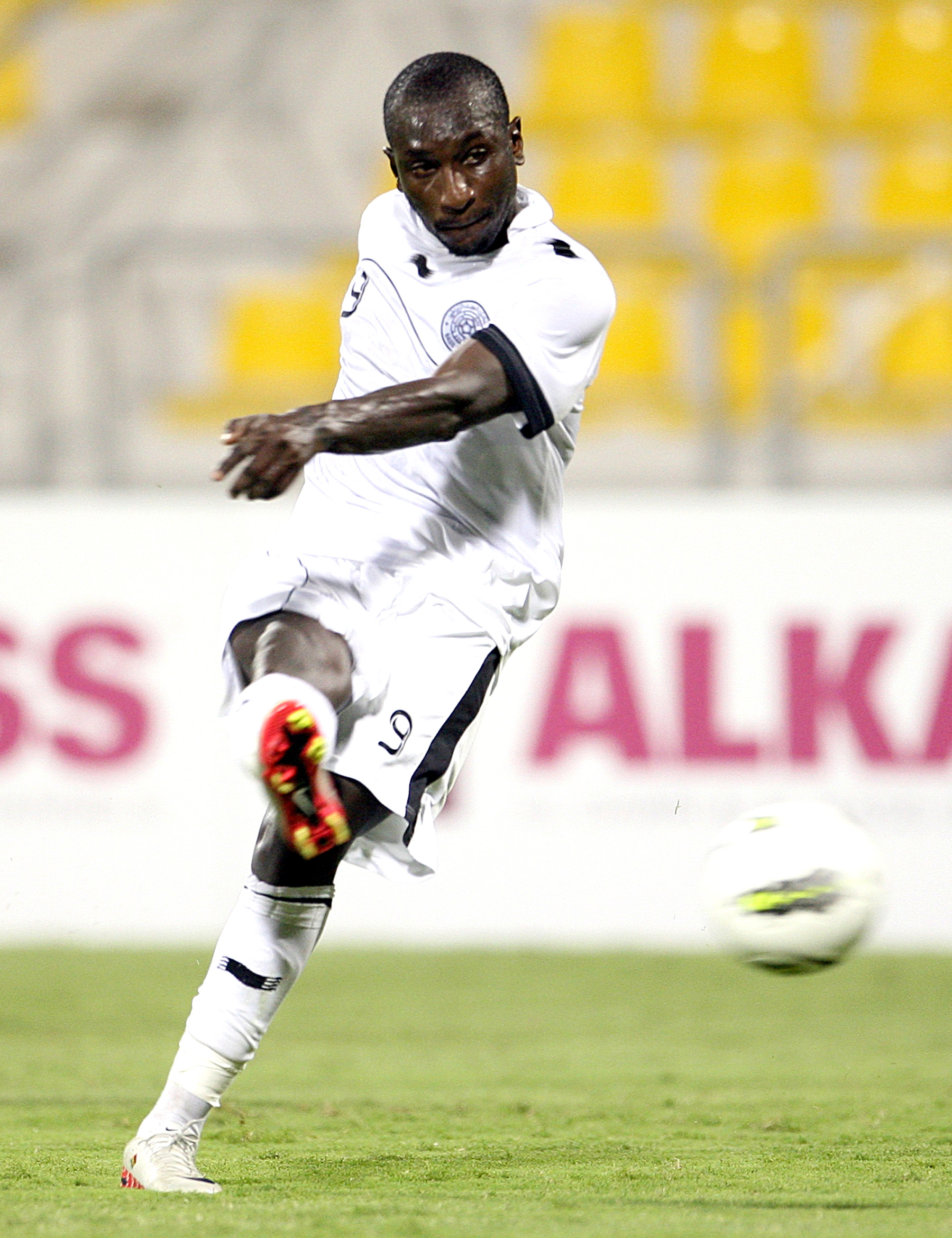 Al Sadd's Mamdou Niang in action against Umm Salal in the Qatar Stars League.